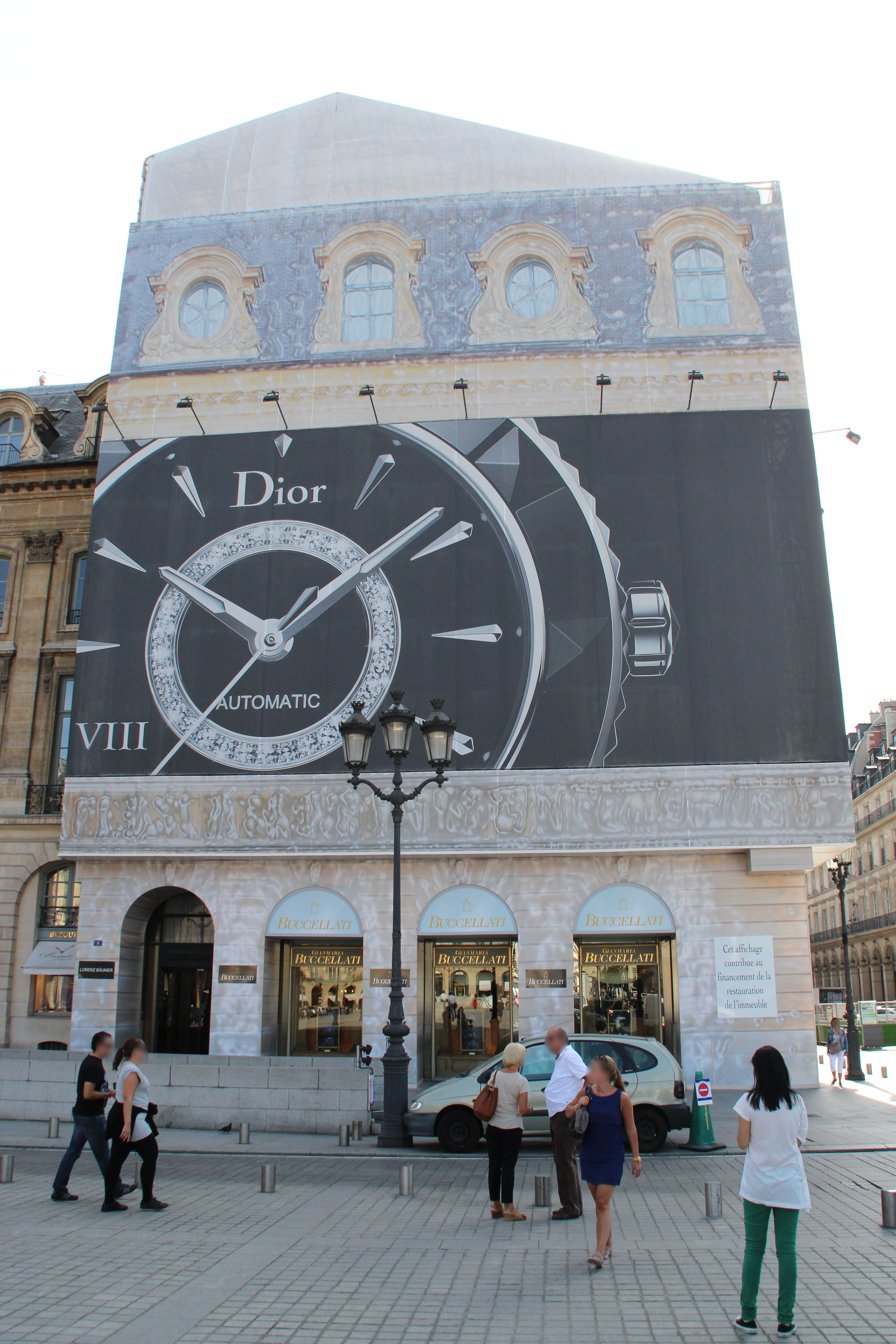 Hôtel Heuzé de Vologer undergoing restoration, 4 Vendôme place in Paris